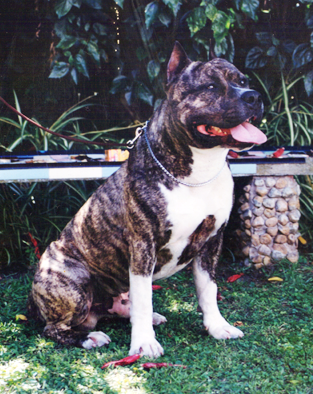 Brindle male American Staffordshire Terrier dog by Ileana n